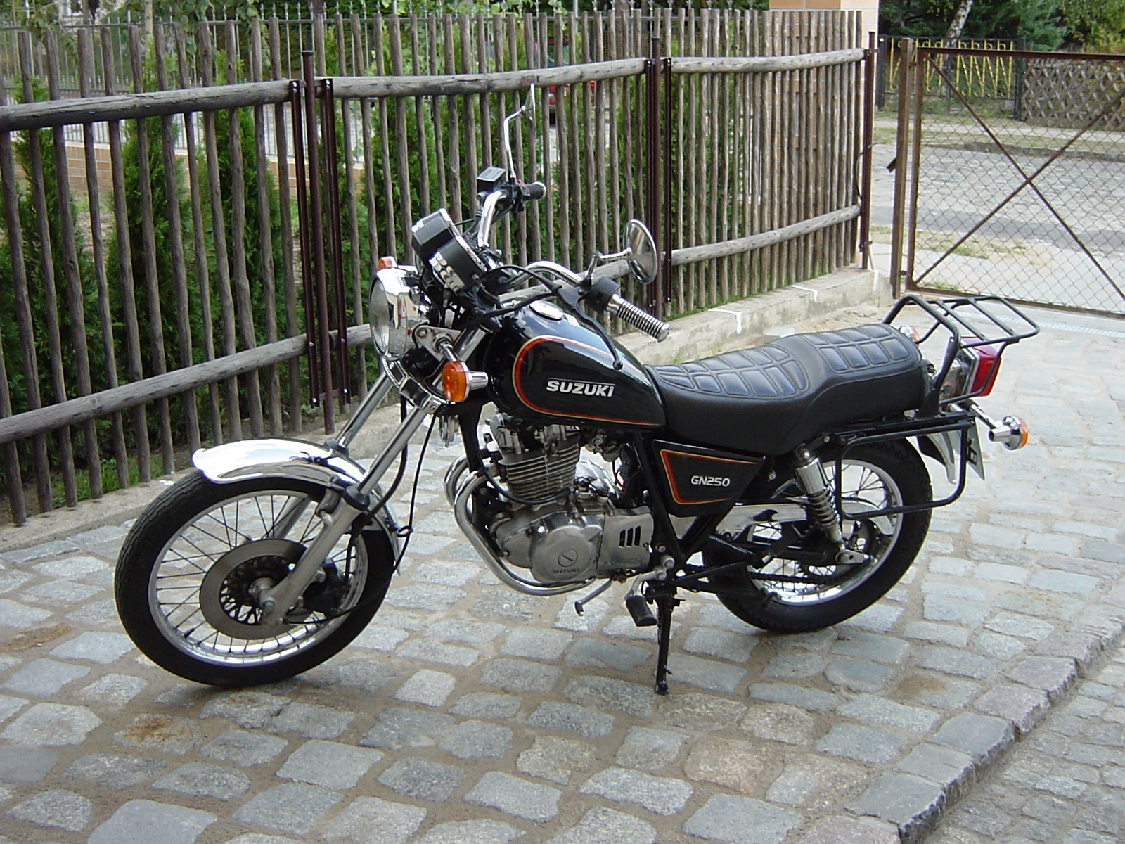 Suzuki GN 250 built in 1992. Photo taken by Andreas Koll 14.September 2003.